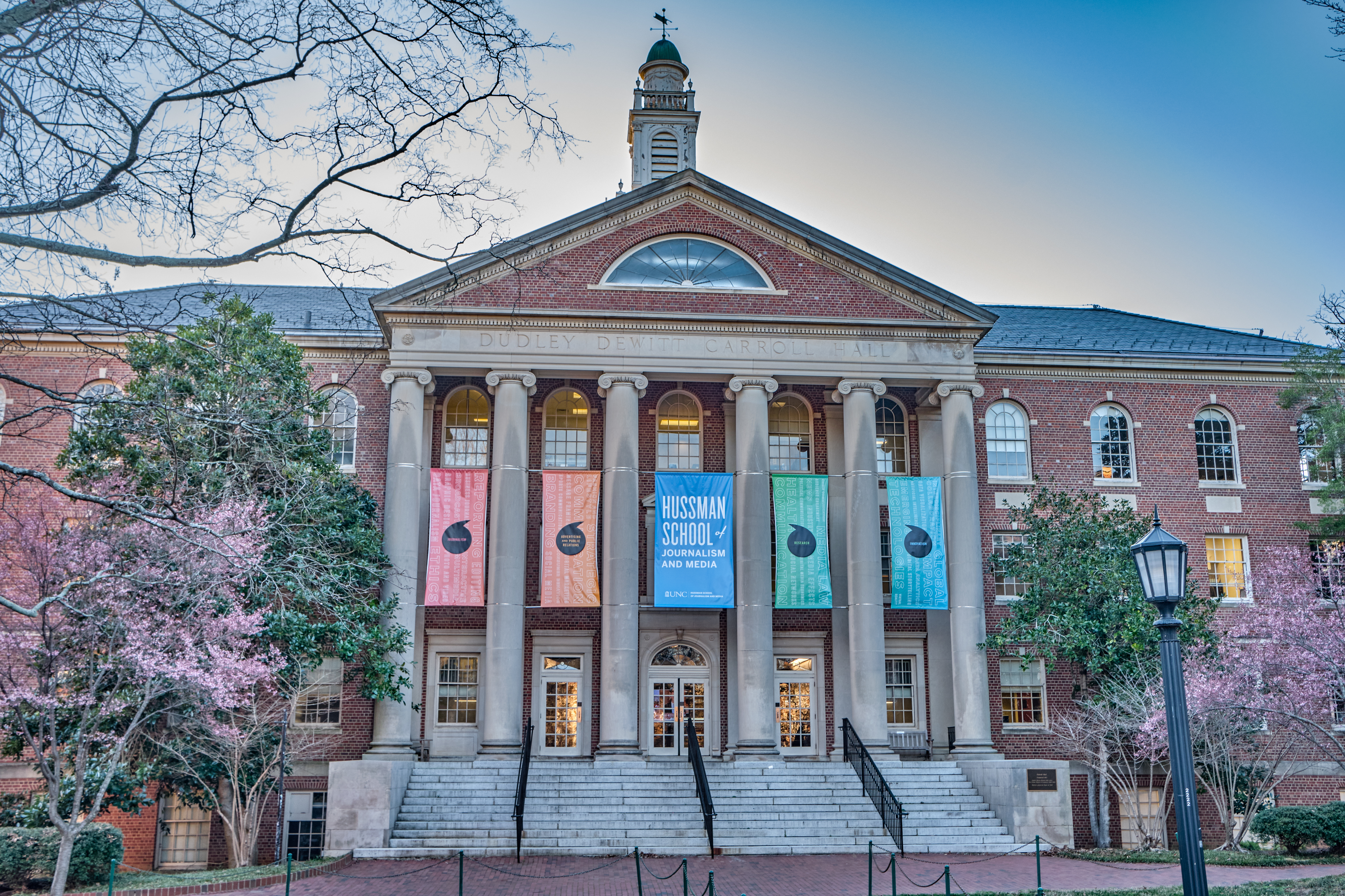 This is a photograph, taken by Mihaly Istvan Lukacs, of Carroll Hall on the campus of the University of North Carolina at Chapel Hill. The photo was taken in the afternoon of 21 January 2020. Carroll Hall houses the UNC Hussman School of Journalism and Media.